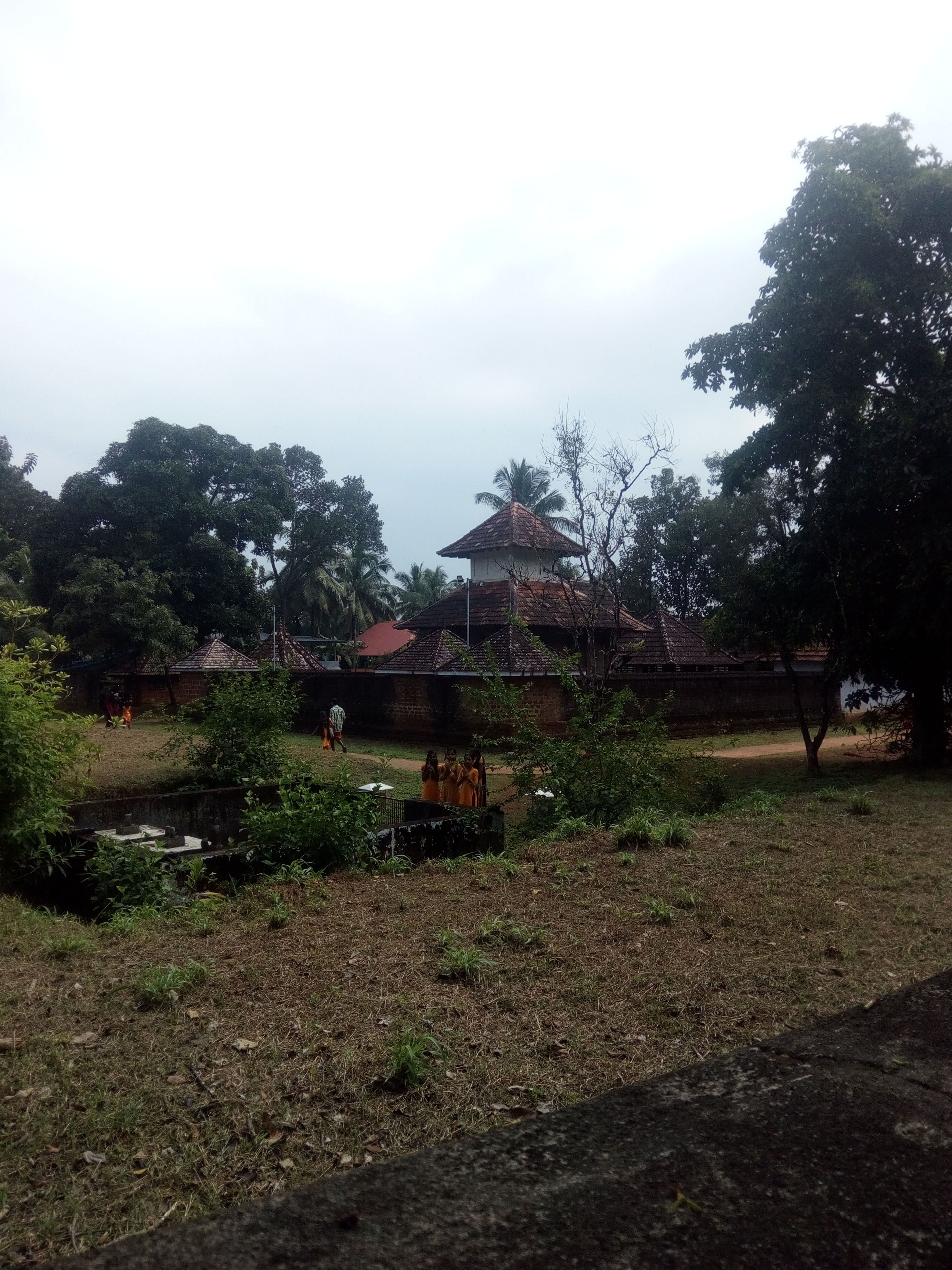 Shiva temple at kaithali pattambi